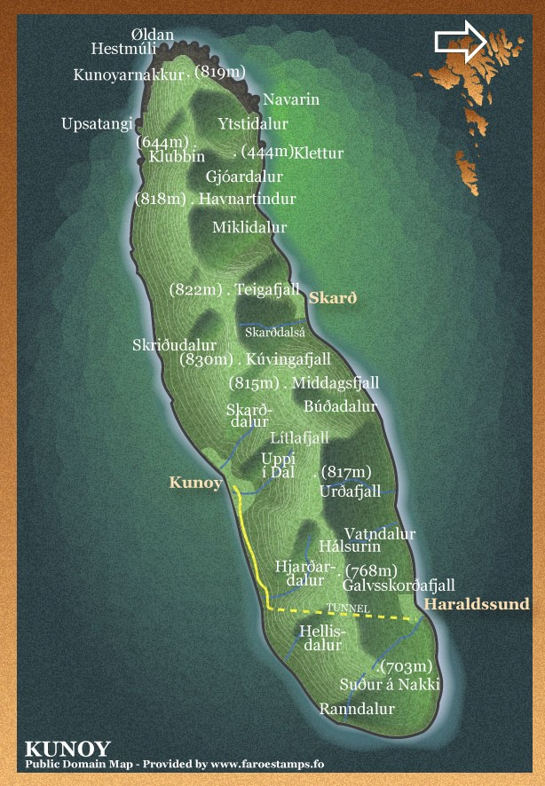 Kunoy, Faroe Islands